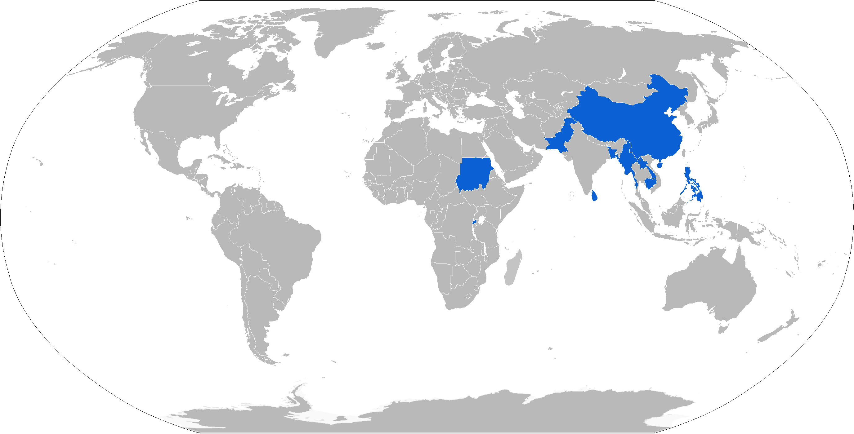 Map of QBZ series users